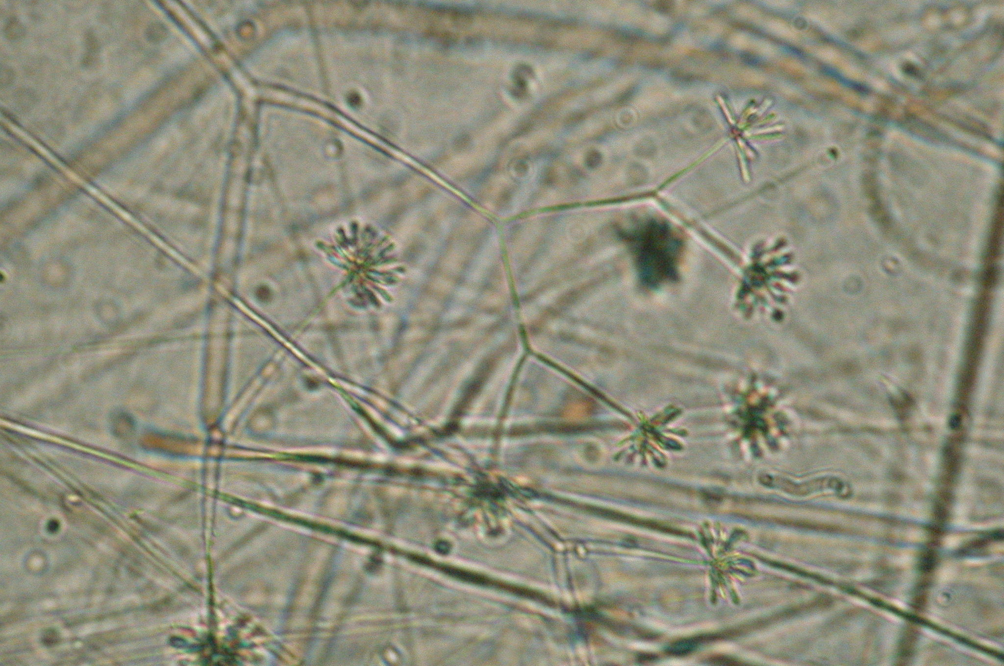 Piptocephalis sp.